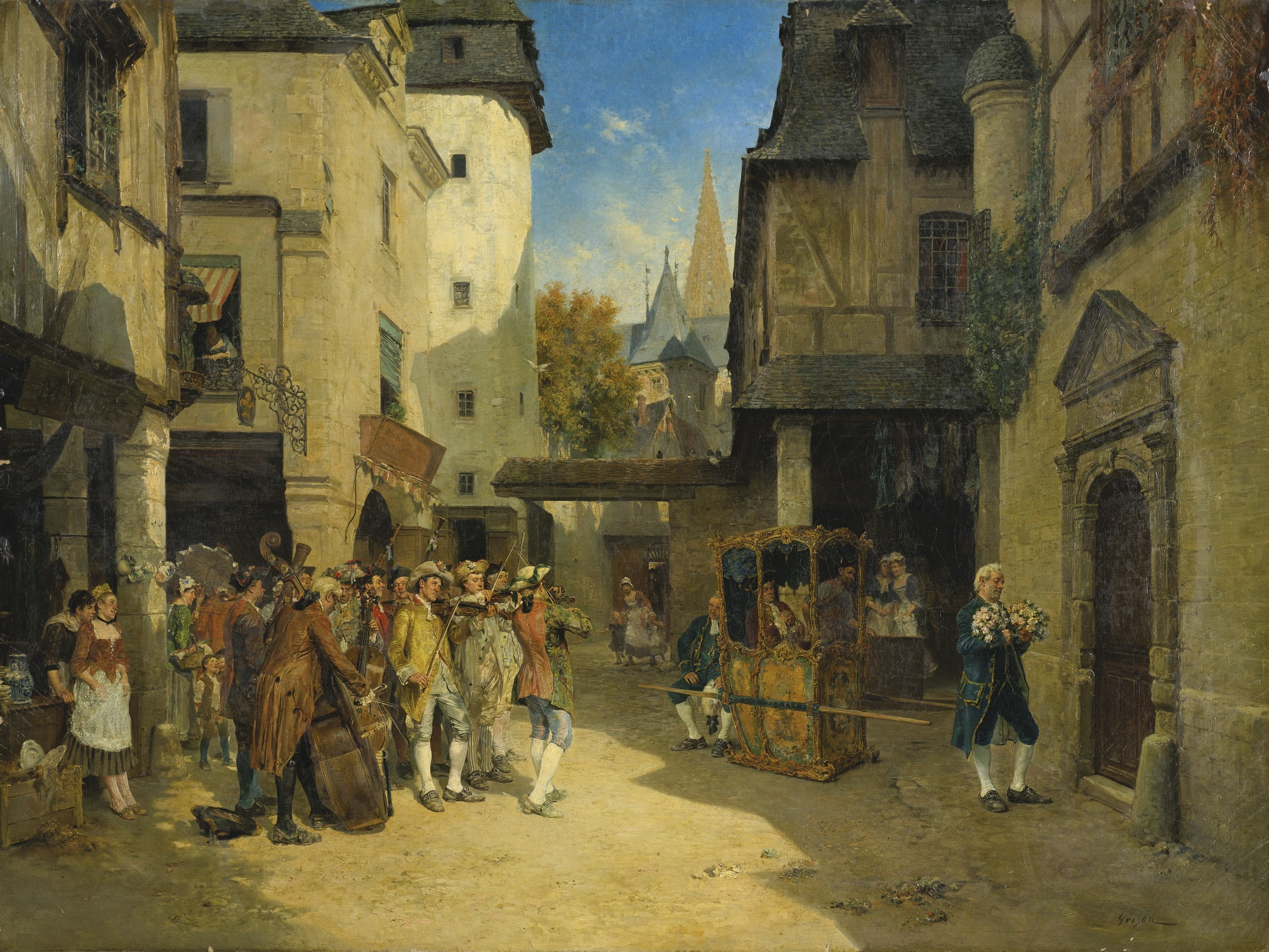 The Serenade; signed Grison (lower right); oil on canvas, 98 x 130 cm.